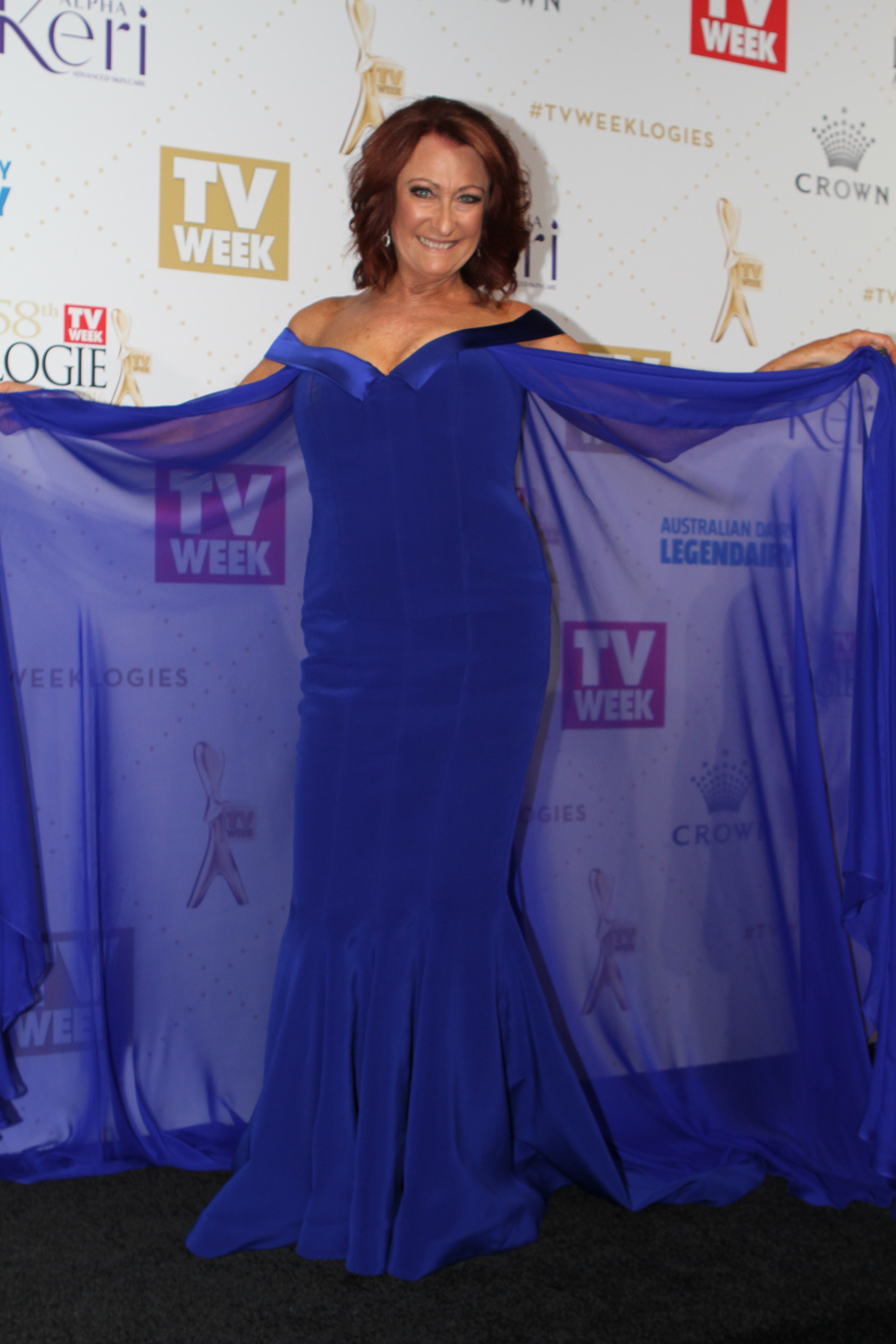 Lynne McGranger arrives at the 2016 TV Week Logie Awards